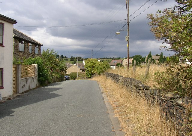 Thornhills, Clifton. This is taken in the hamlet of Thornhills, on Thornhills Lane looking north at SE152238.